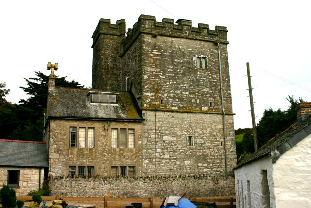 Pengersick Castle. Visit the farm next door - much better?